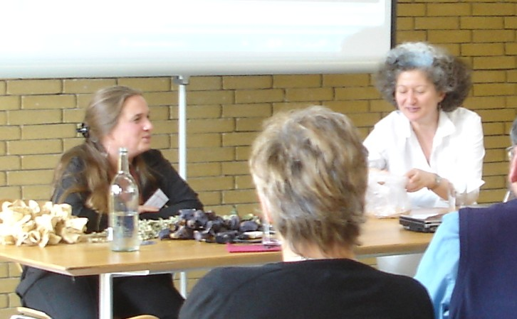 Aylin_Tan_and_Anissa_Helou speaking and tasting at the Oxford Symposium on Food and Cookery